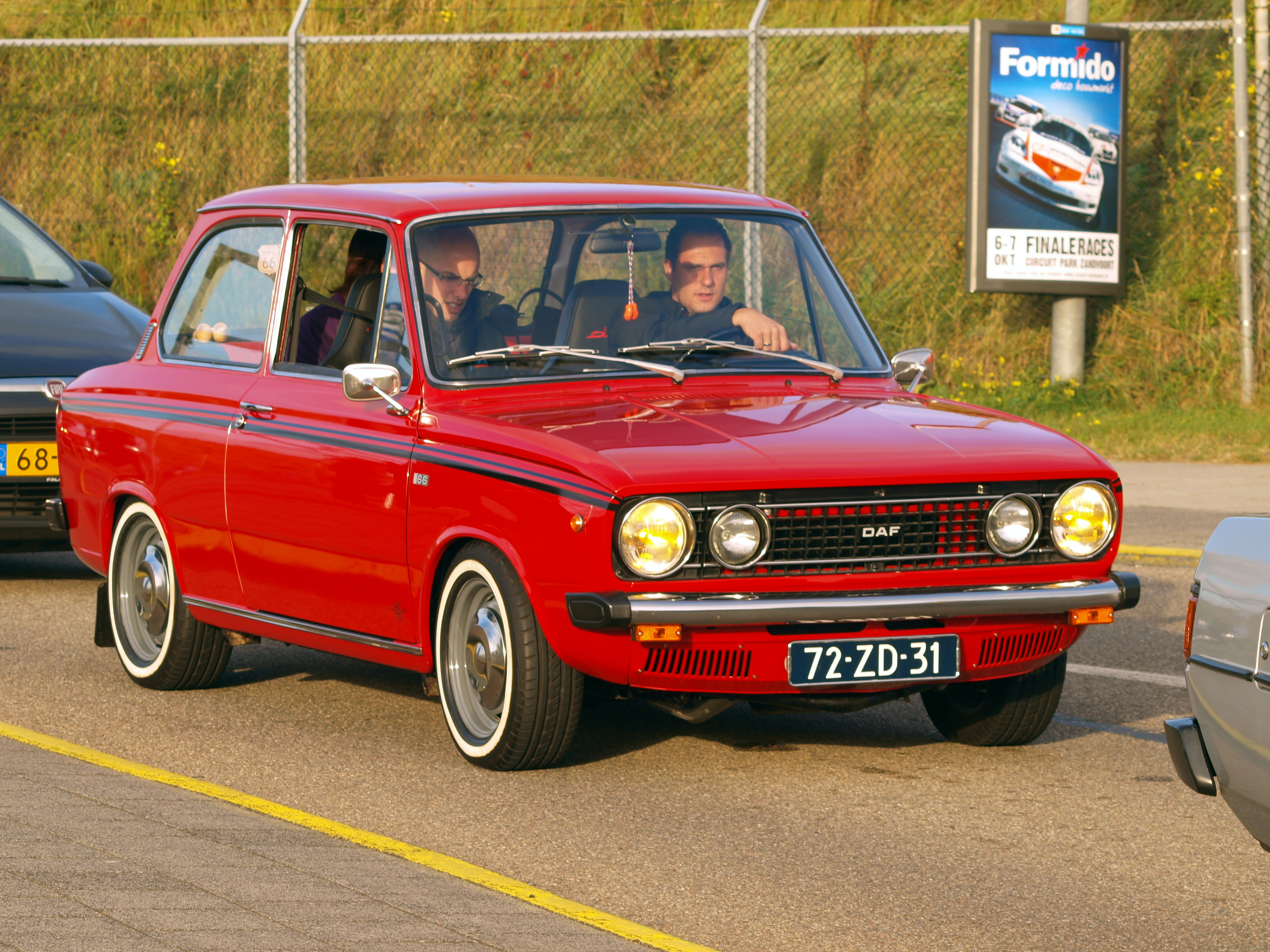 Photographed at the Nationaal Oldtimer Festival Zandvoort 2012. 1978 DAF 66